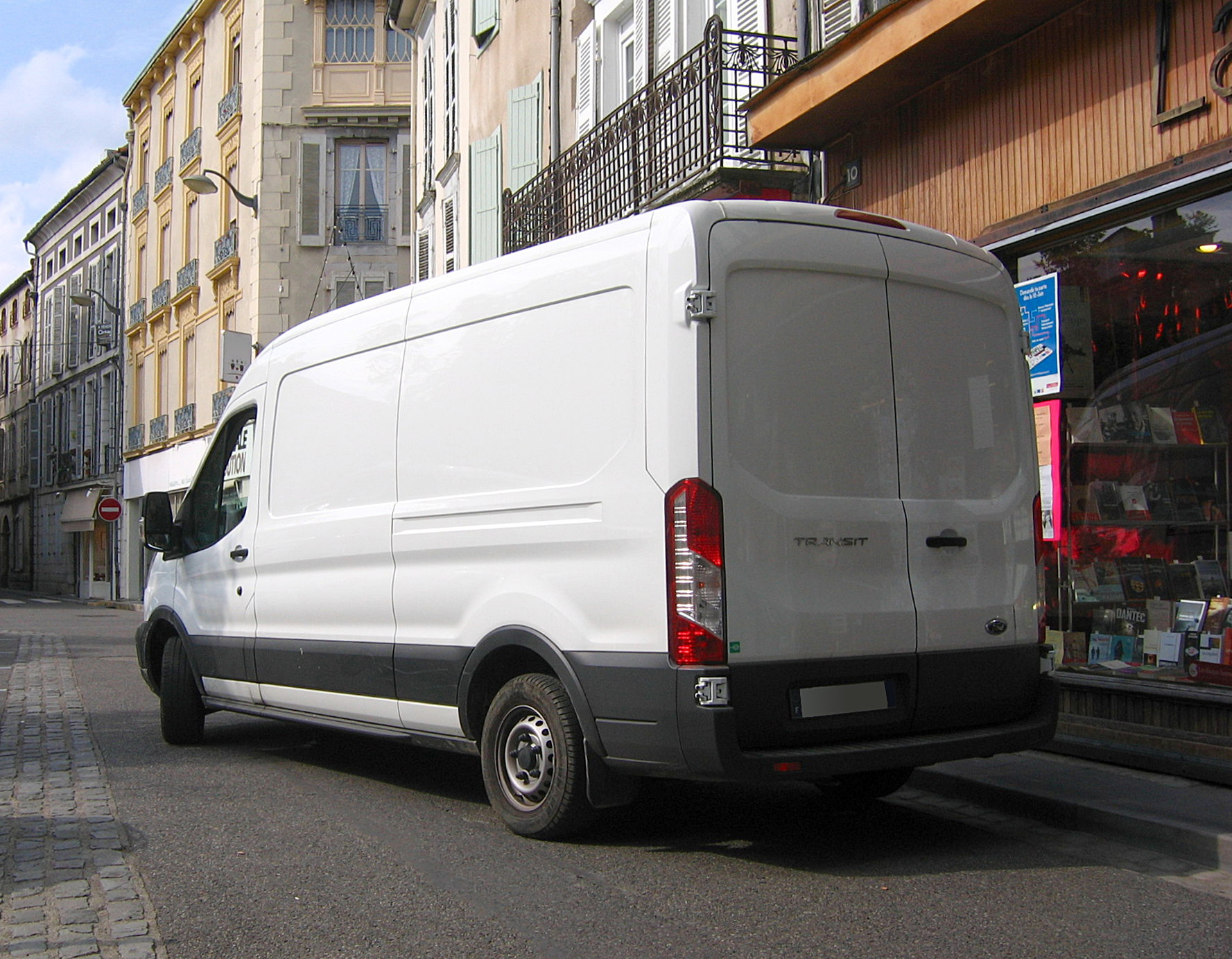 2014 Ford Transit.